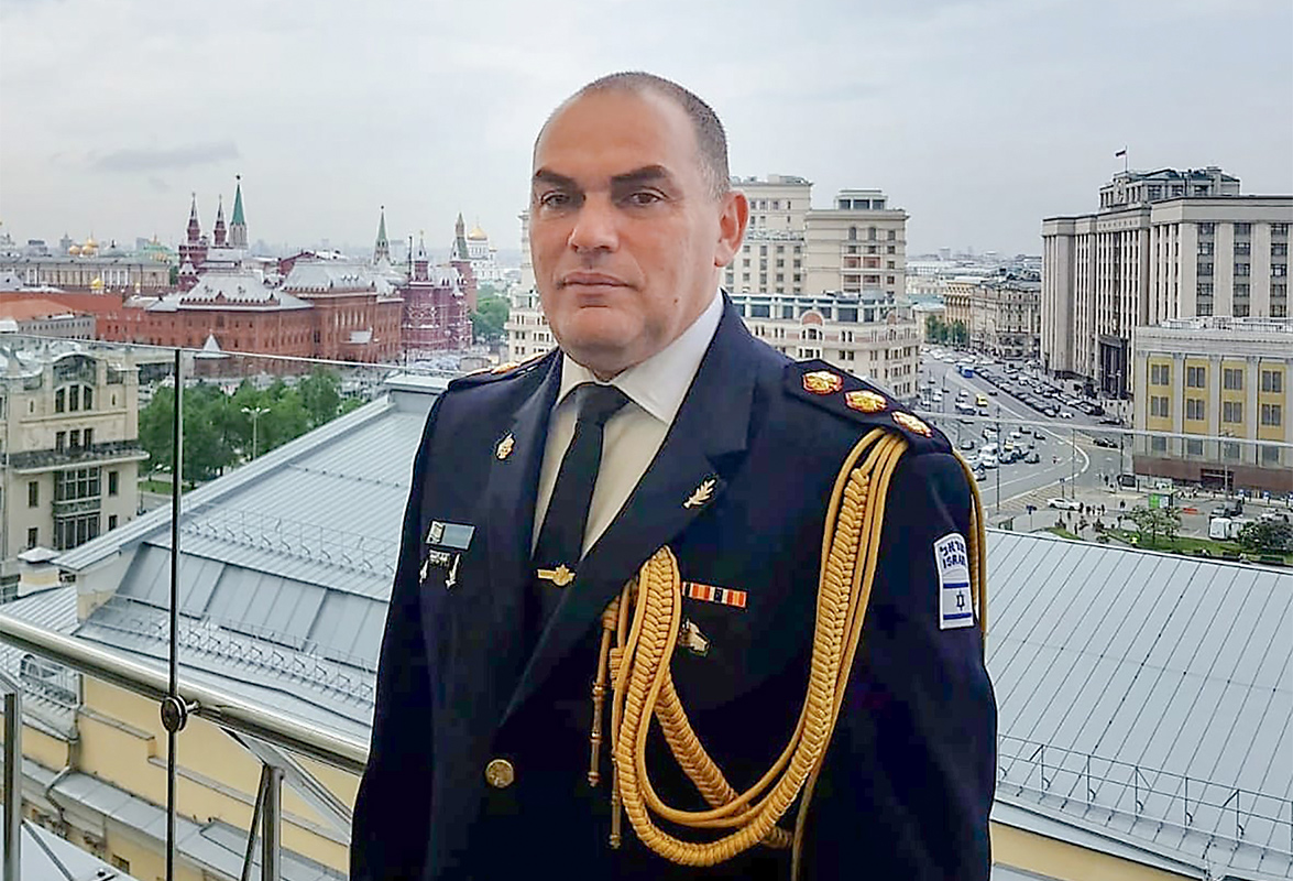 Col. German Giltman Israel's defense attaché to Russia